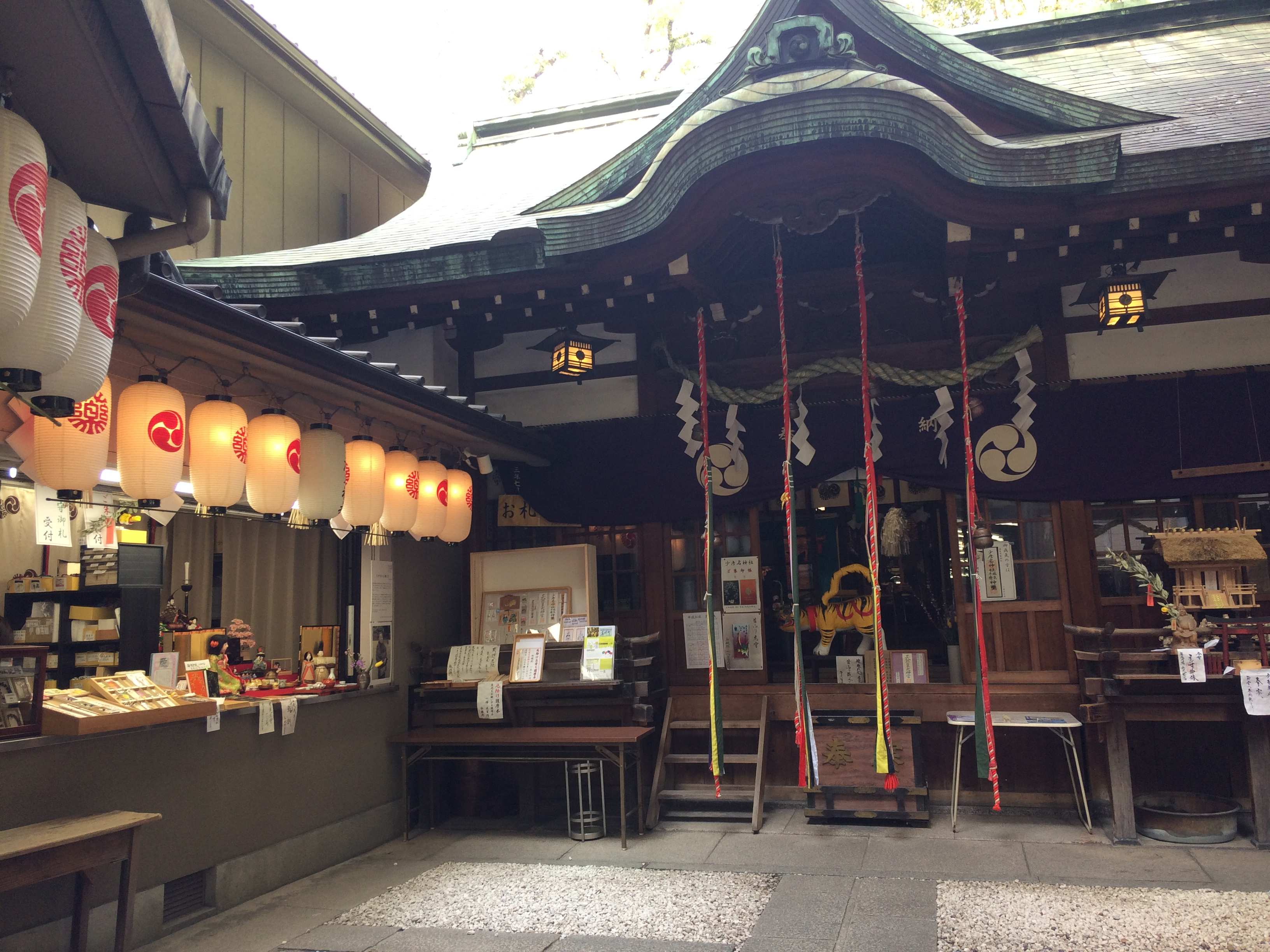 The Sukunahikona-Shrine (Sukunahikona-jinja) in Osaka (Japan), a shrine dedicated to the medical deities Sukunahikona (Japan) and Shennong (China)